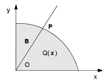 Output distance function File created by Giuseppe.Vittucci